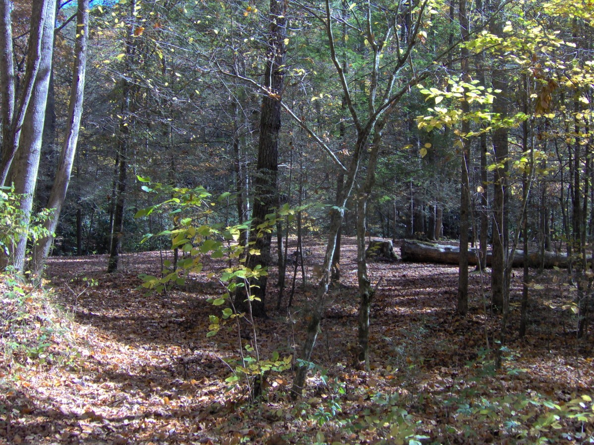 Backcountry Campsite 84 in the Great Smoky Mountains of North Carolina. This campsite is located at the confluence of Sugar Fork and Hazel Creek. A small Cherokee village or hunting camp was situated here before the arrival of the first Euro-American settlers in the mid-1800s. In the late 1800s and early 1900s, this was the town of Medlin.